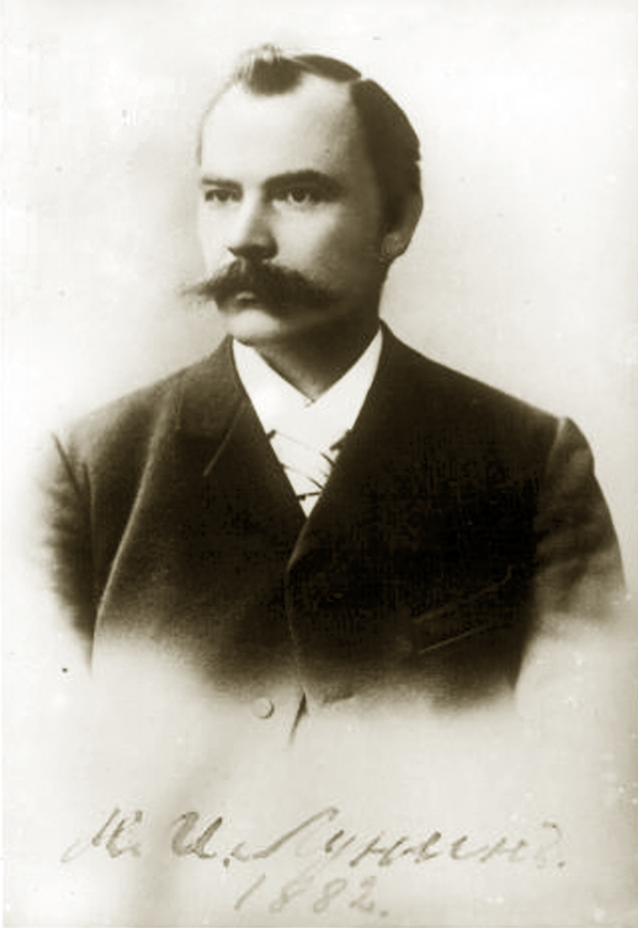 Lunin Nikolay Ivanovich MD